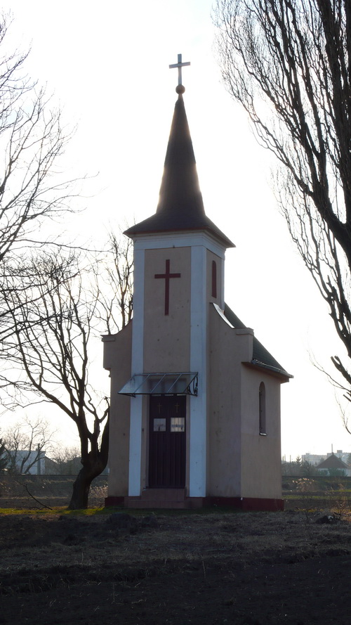 Kaplnka Nepoškvrnenej Panny Márie